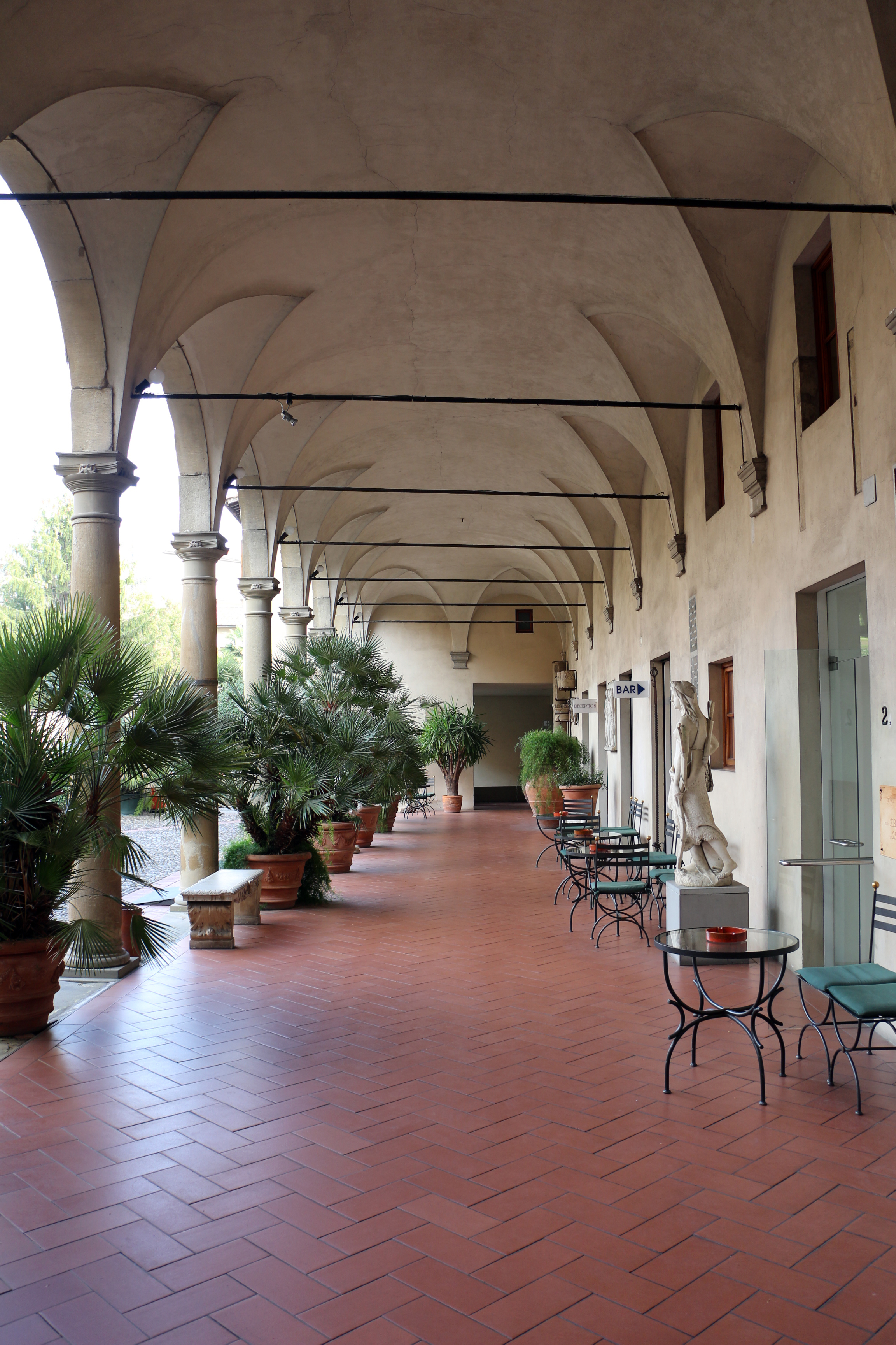 Palazzo Ricasoli, Florence (ex-Monastero del Ceppo)